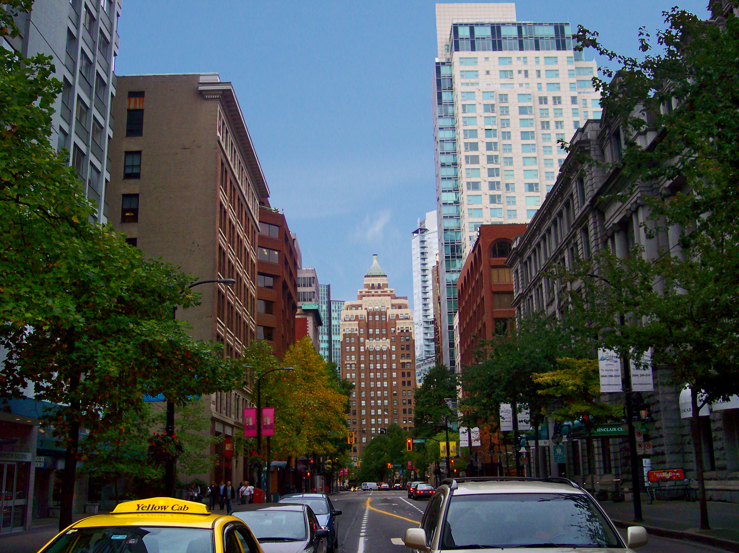 Marine Building from Granville & Hastings Streets intersection, Vancouver, BC, Canada